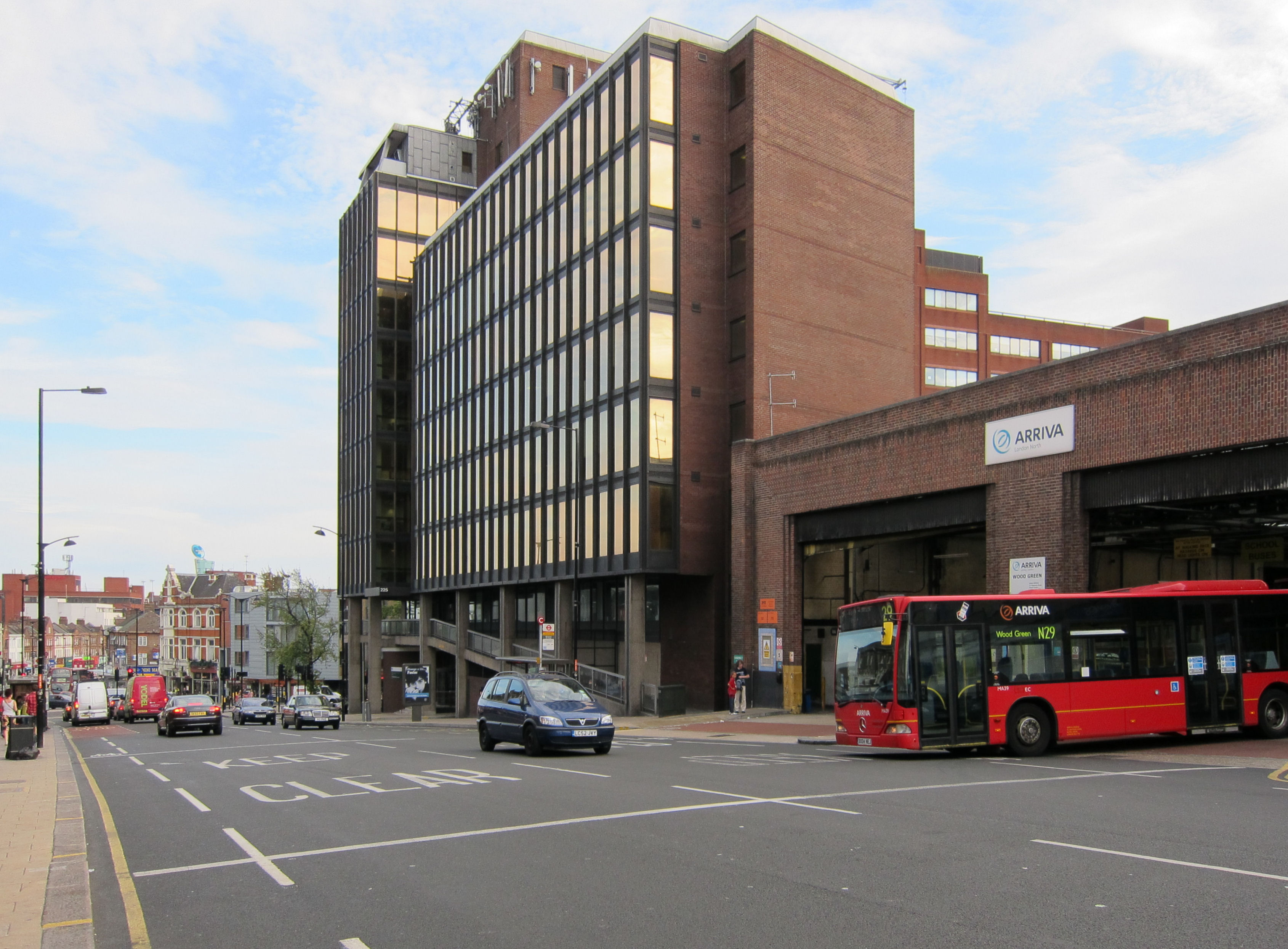 High Road Wood Green N22. View from the north. From this angle and in this light, River Park House looked not bad.